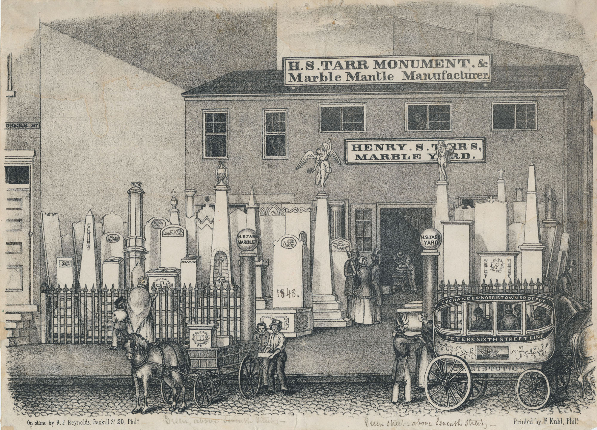 Advertisement containing an exterior view of the factory (adorned in signage) and fenced marble yard located at Green Street above 7th Street. In the yard, a couple reviews one of several cemetery monuments displayed in front of the factory in which marble workers are visible. The men toil near the open entry and windows. Several of the monuments, many obelisks, contain sculpted adornments. In the street, passengers arrive from an omnibus for the "Exchange & Norristown R.R. Depot. Peters Sixth Street Line" near laborers loading marble works onto a horse-drawn cart. Also shows a woman and boy peering into the yard from the fence and a slight view of the neighboring residential building marked "Green St." Tarr was one of the four major marble manufactories in the city during the mid nineteenth century.